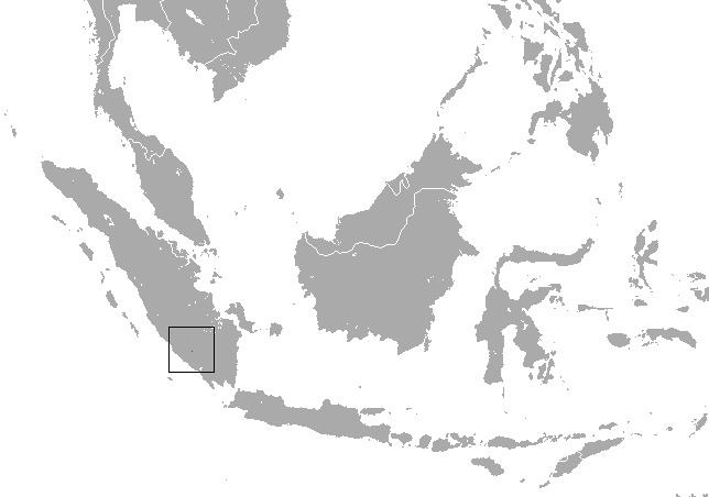 Sumatran Water Shrew (Chimarrogale sumatrana) range